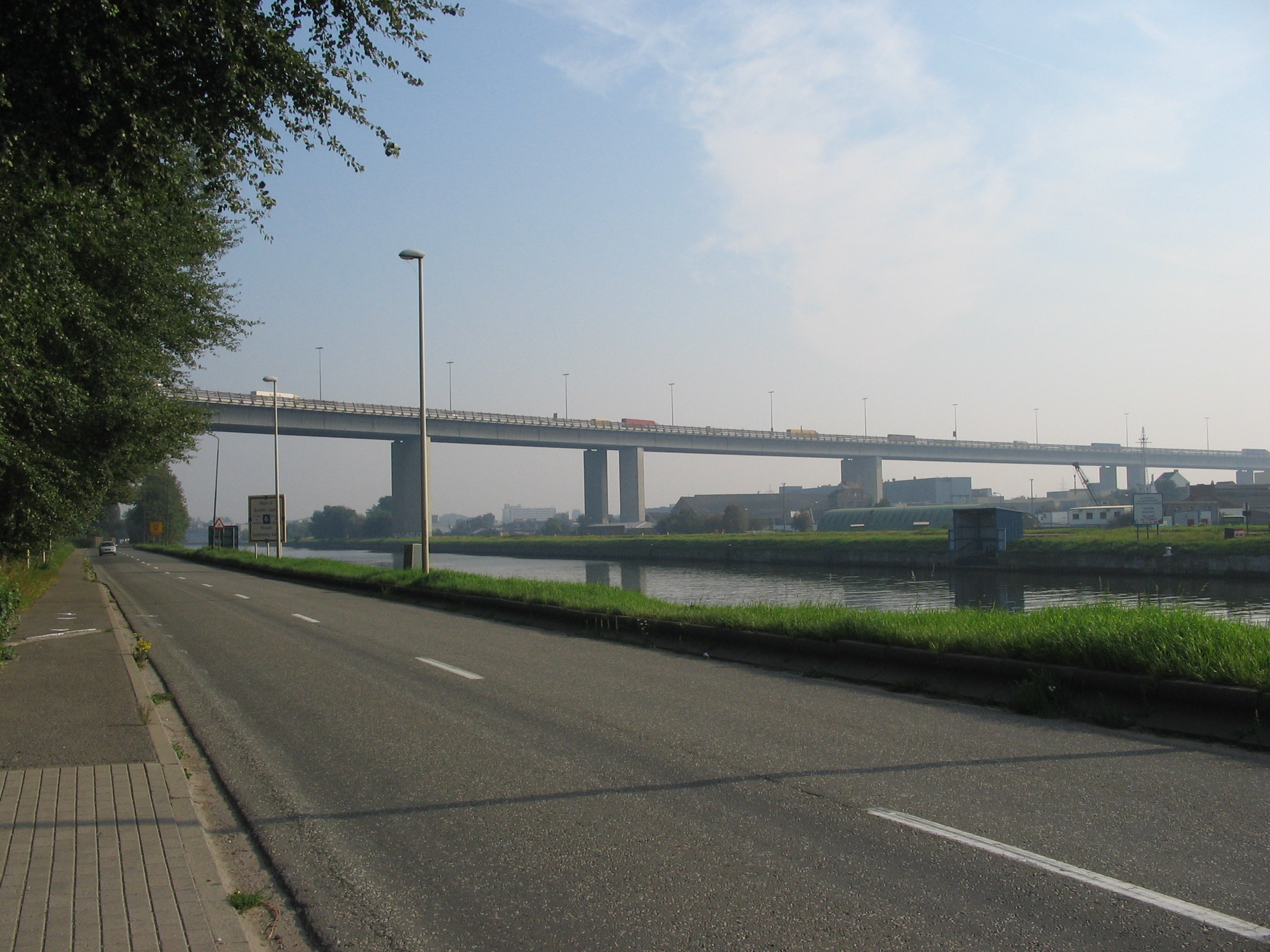 Vilvoorde Viaduct on the Brussels Ring over the sea canal Brussel-Schelde.